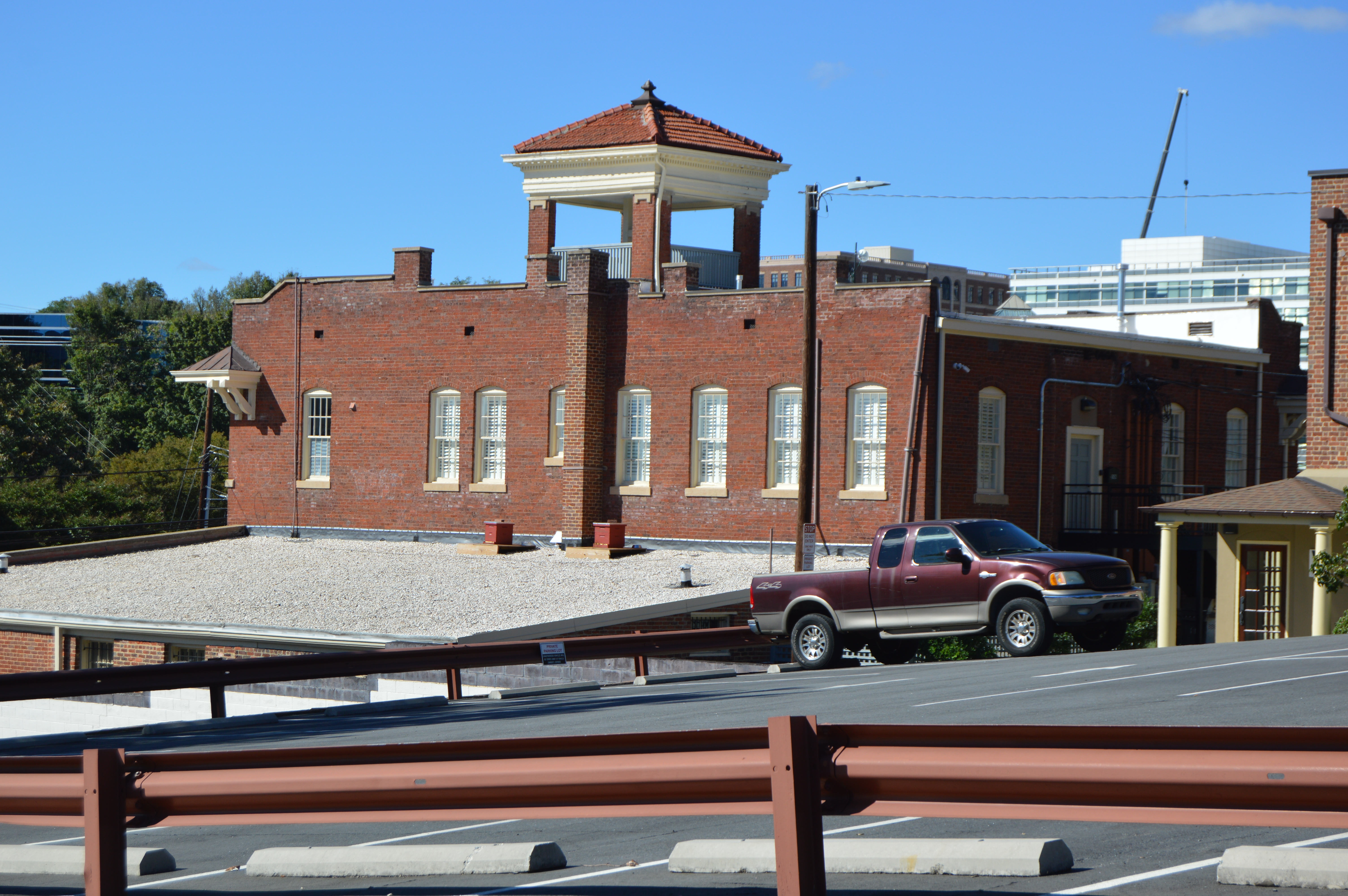 Southern side and rear of the Salem Town Hall, located at 301 S. Liberty Street in Winston-Salem, North Carolina, United States. Built in 1912, it is listed on the National Register of Historic Places.